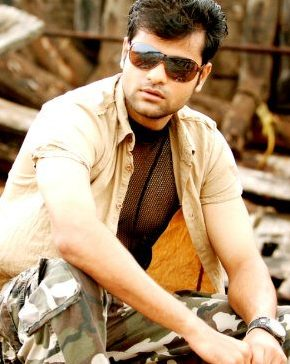 This image is of Marathi Actor Piyush Ranade.